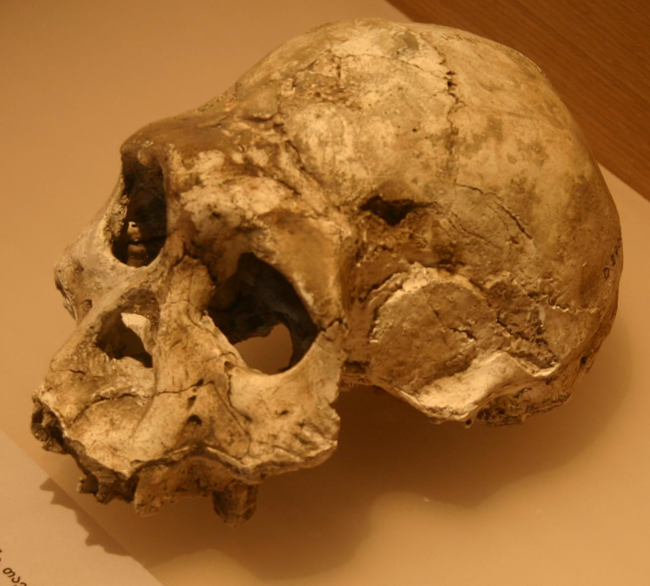 With thanks to the Georgian National Museum for allowing photography